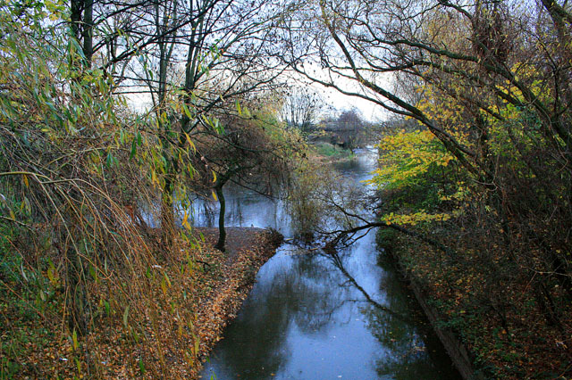 A Tributary joins the Derwent I am not sure, but think that this must be Markeaton Brook, just emerged from passing under Derby City Centre.